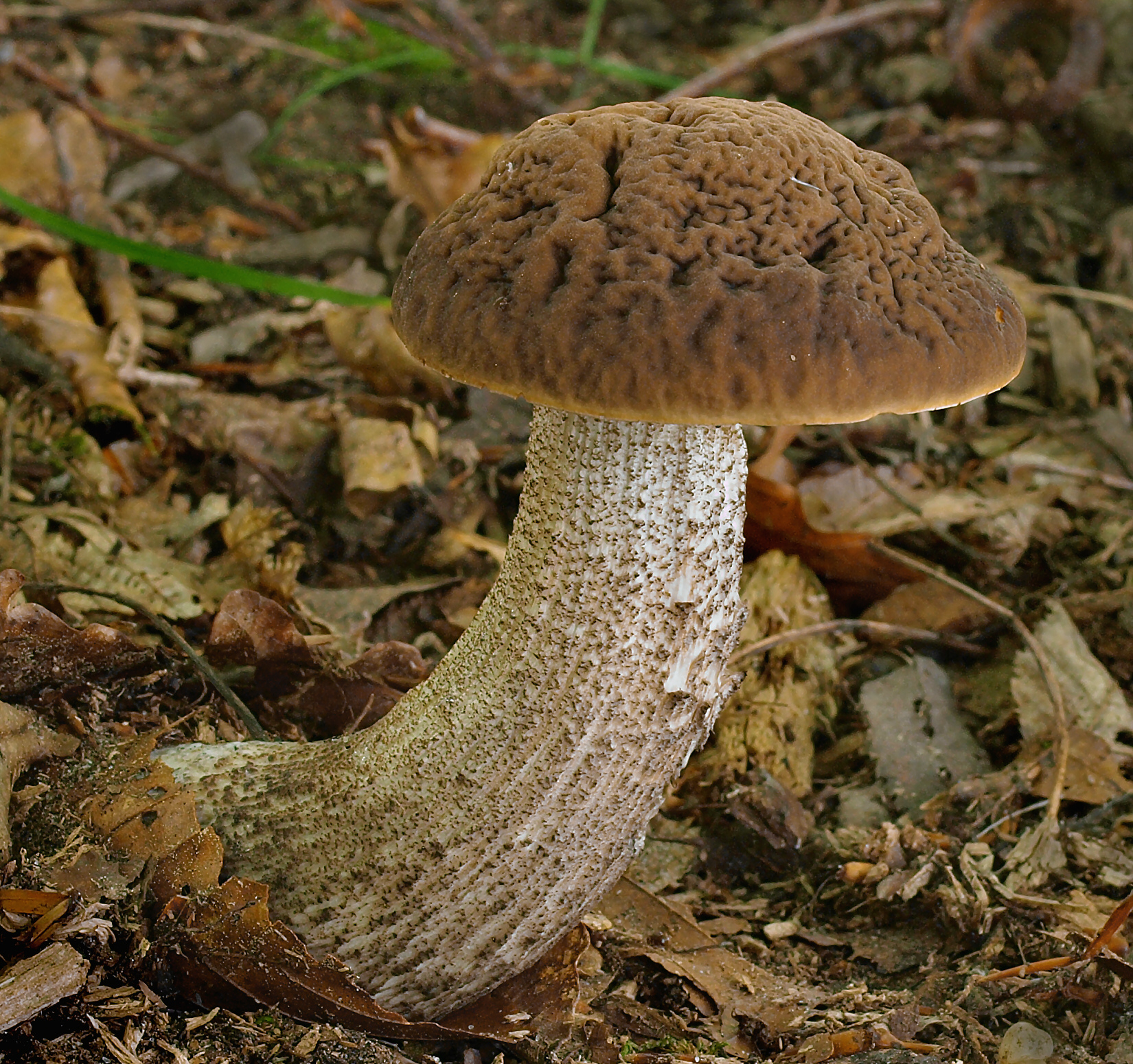 Hazel Bolete (Leccinum pseudoscabrum)